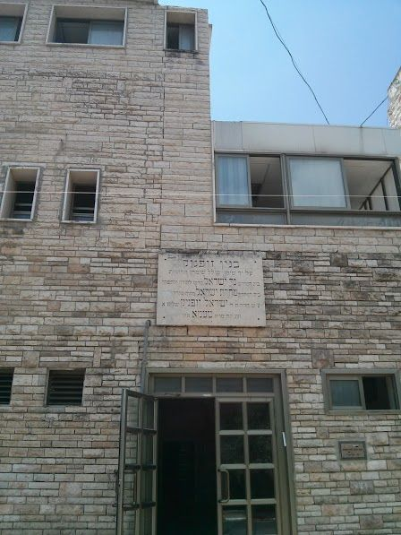 Zupnik Building in Giva't Shaul, Jerusalem